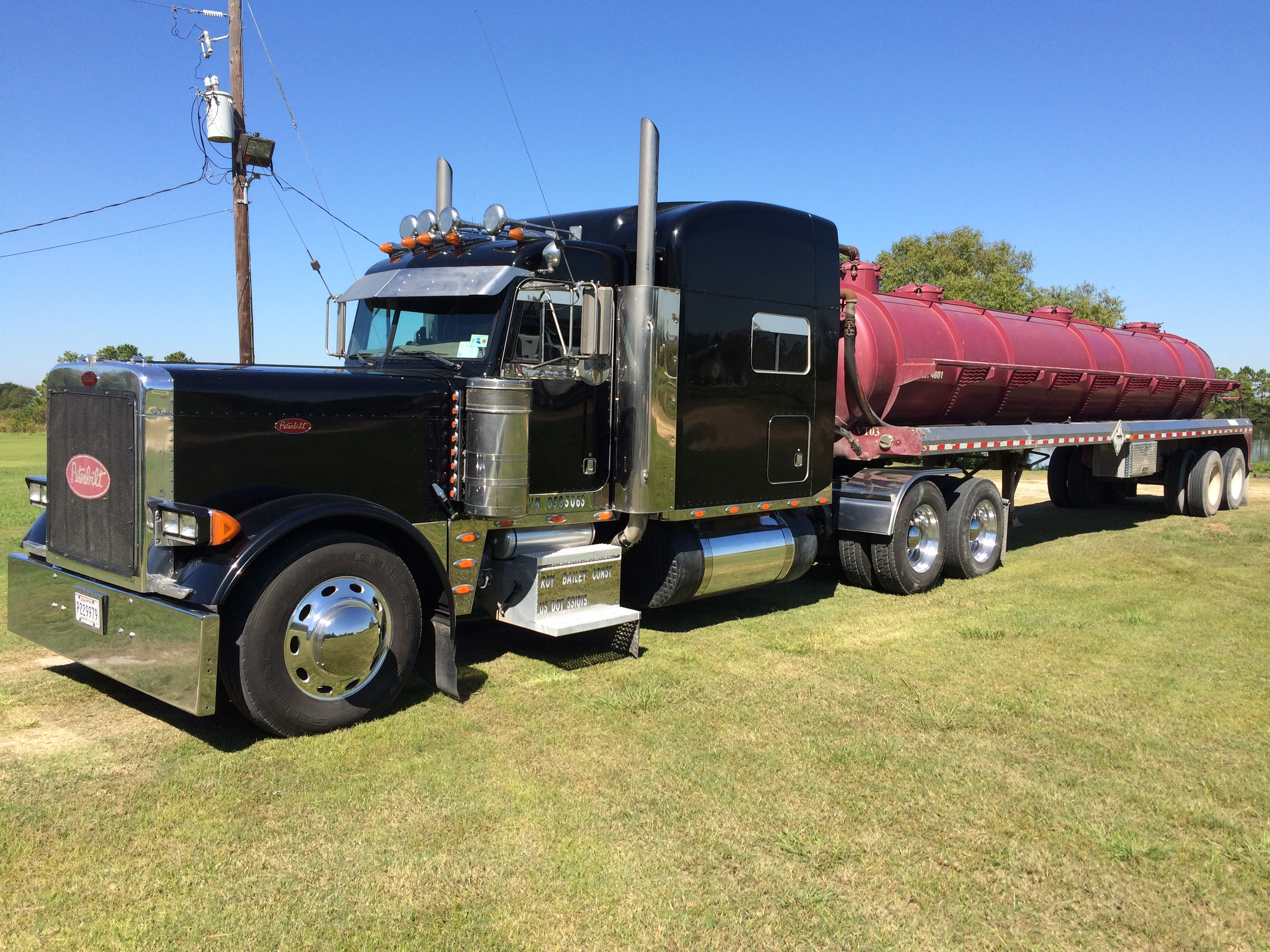 Black 2003 Peterbilt 379 American Class interior 550 hp Cat C15 18 speed Eaton Fuller transmission